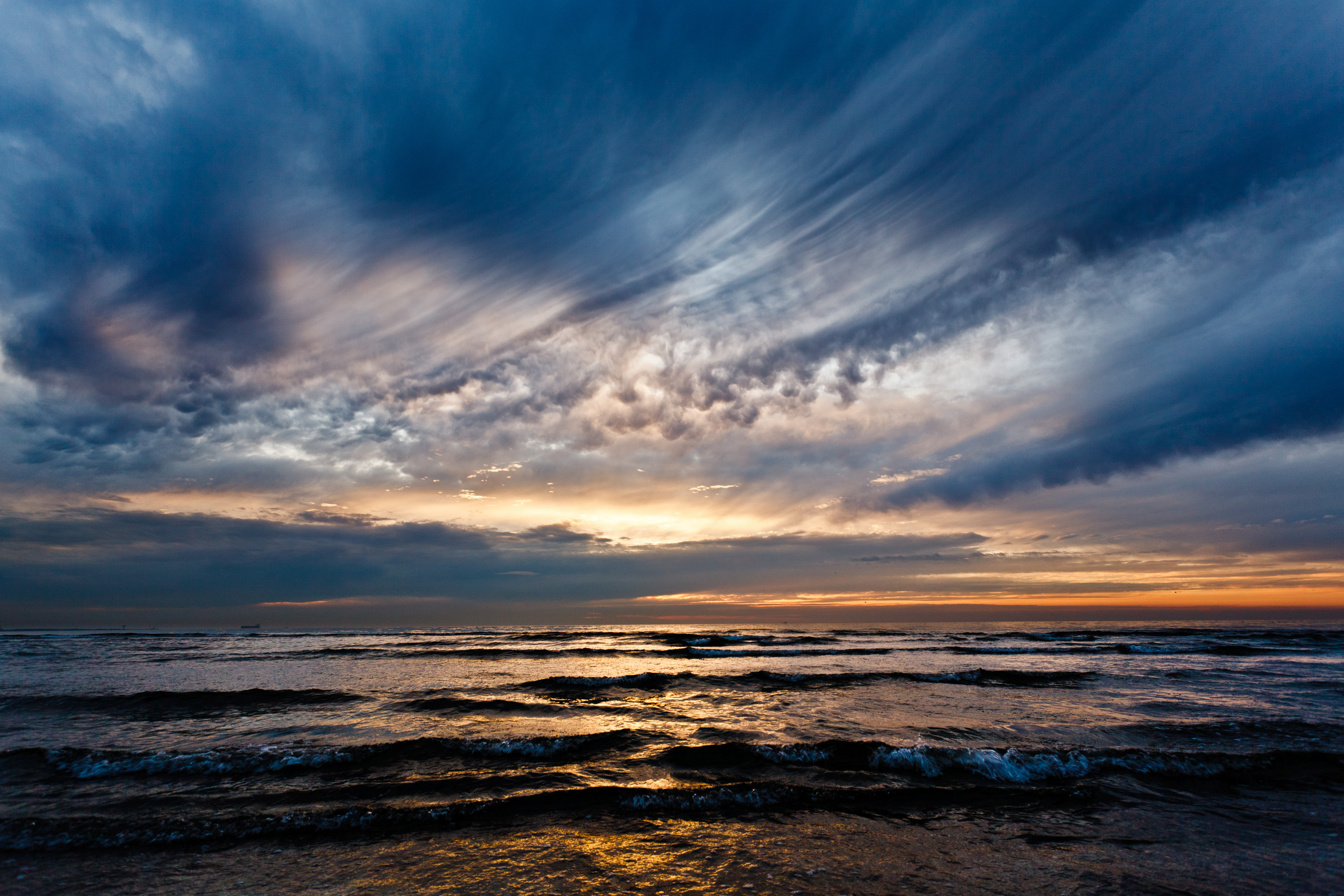 Tonight we had the most amazing sky at the beach!! :-)